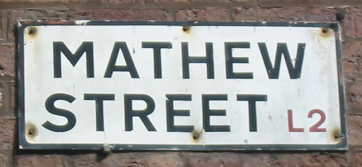 Nrf: Liverpool